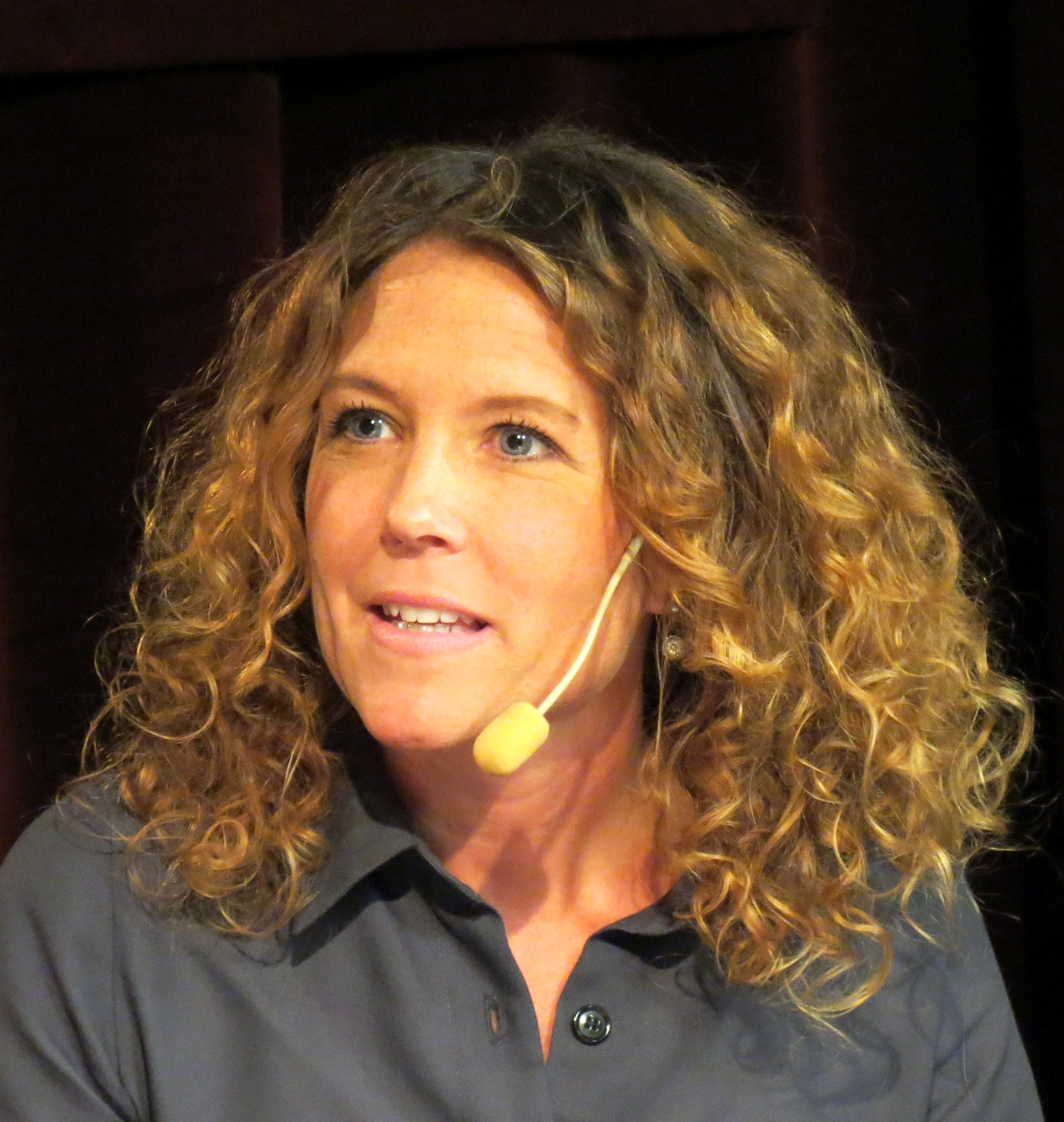 Swedish TV-host Anna Lindman.